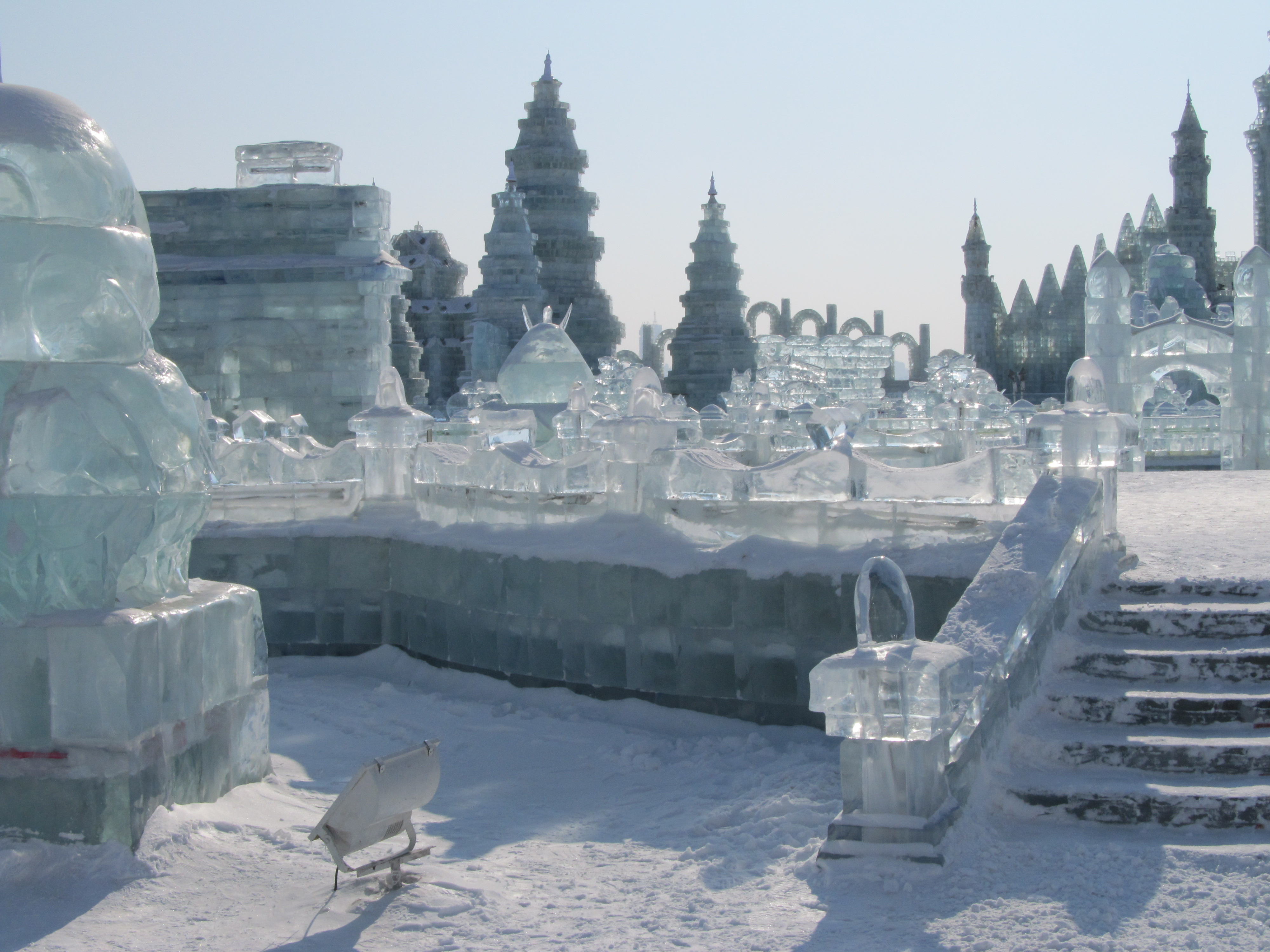 Ice and Snow World, in Harbin, China, during day. The hundreds of sculptures will transform when they are all lit up and night.